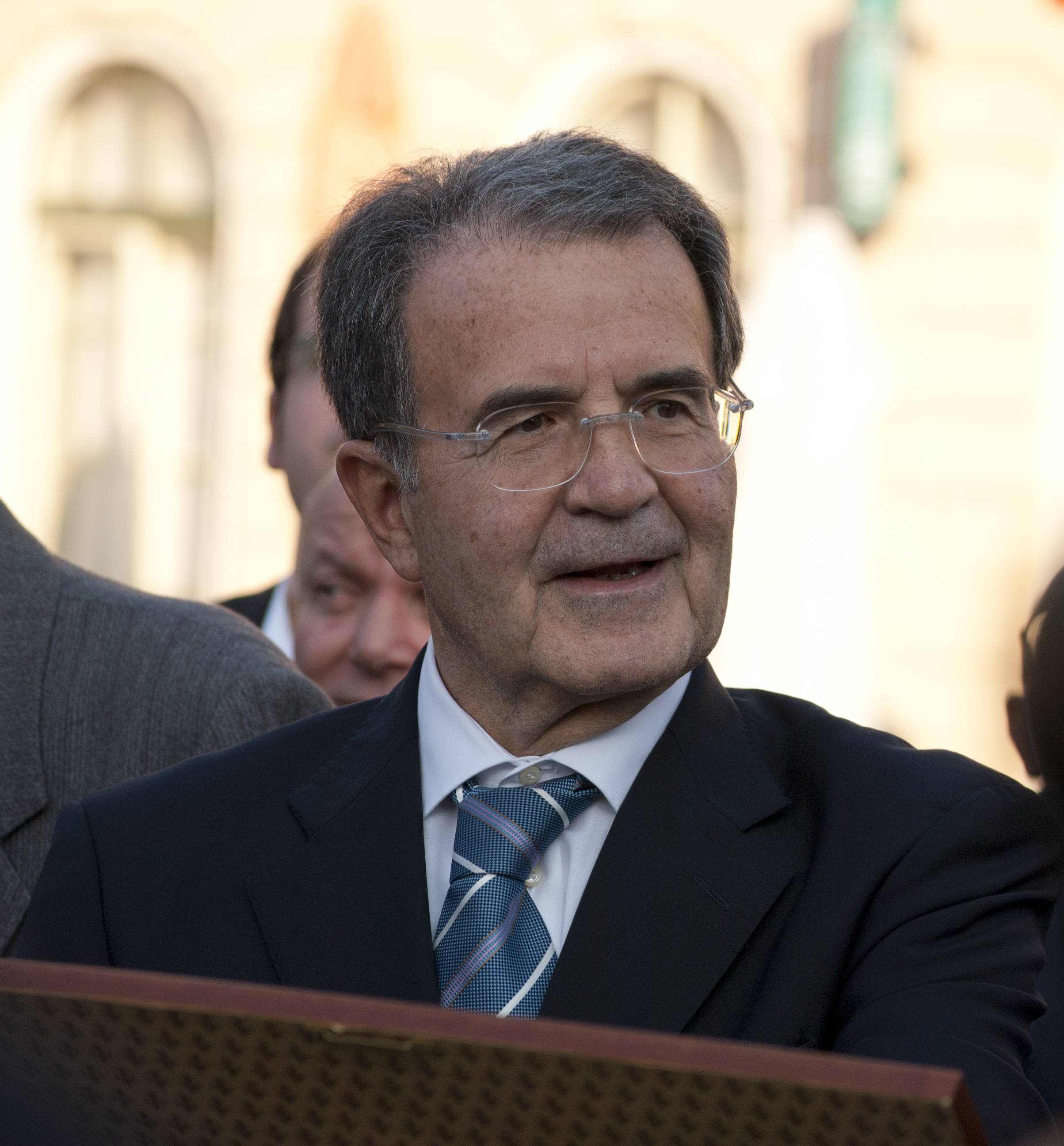 Romano Prodi during the commemoration ceremony of the fall of the border Italy - Slovenia on 2004